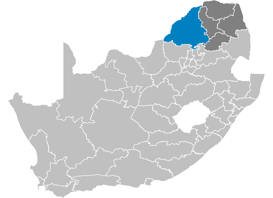 Map showing the Waterberg District Municipality higlighted within Limpopo.